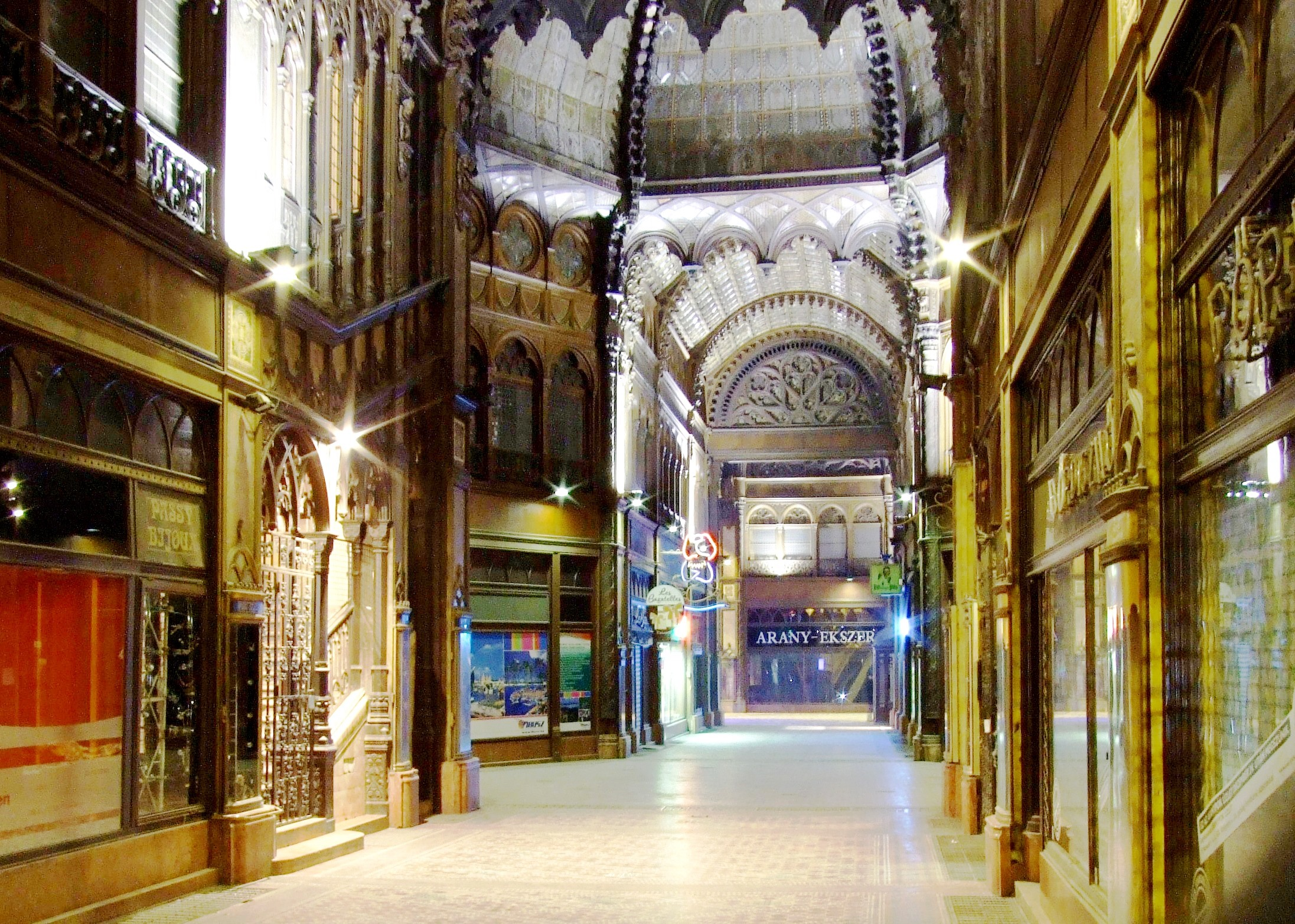 Párizsi udvar passage near Váci út in Budapest, Hungary